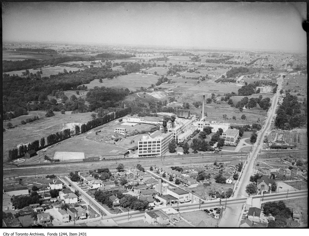 Aerial view of the Kodak campus in Mount Dennis. Original caption: "Kodak factory and office site being built, Mount Dennis, 1917. Some factories moved to isolated suburban sites. (City of Toronto Archives SC 244-2431. Reproduced by permission.) " Toronto History Aerial view of Kodak Plant, Eglinton Avenue West, Mount Dennis Photographer: William James ca. 1930